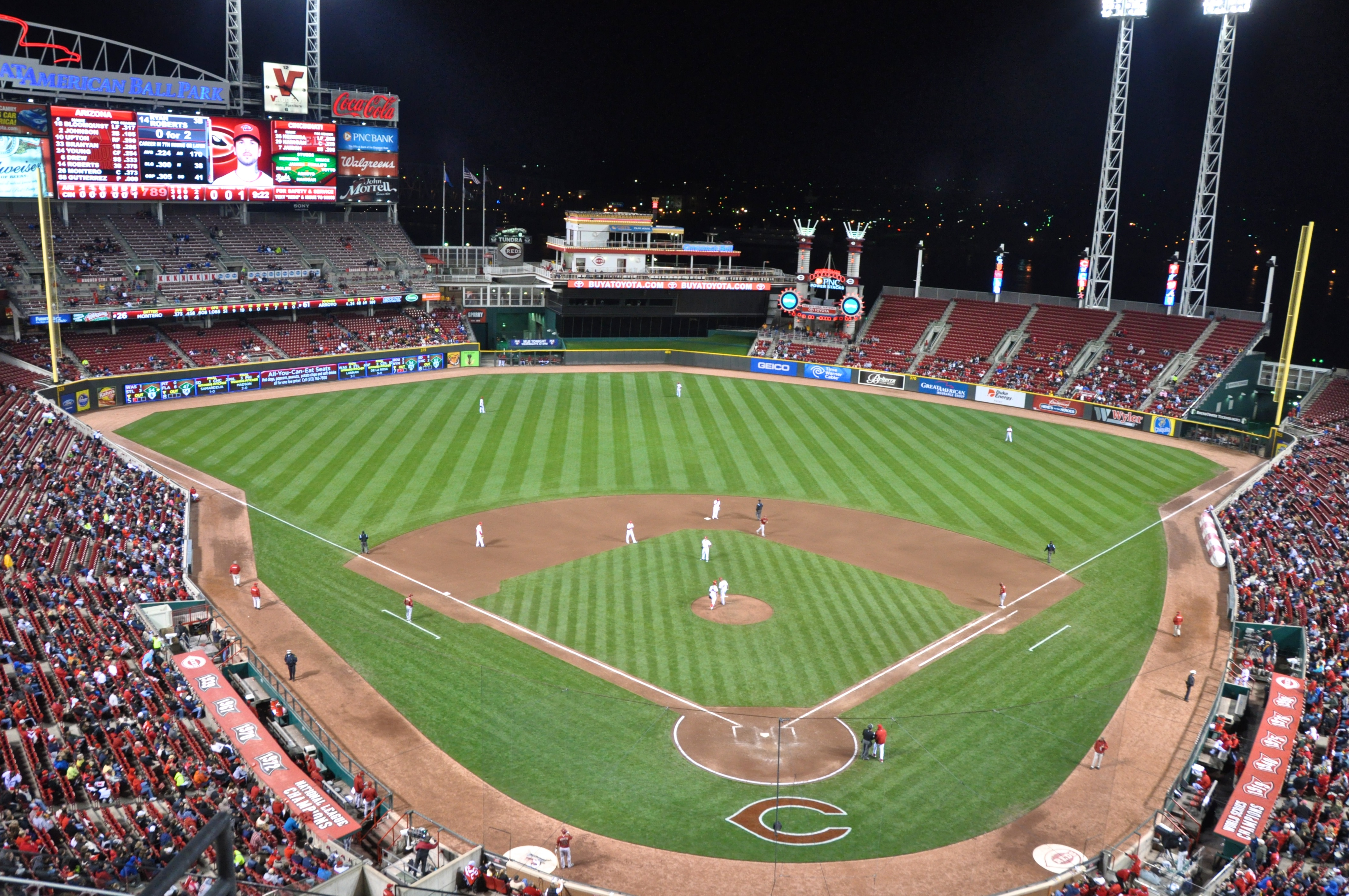 Great American Ball Park